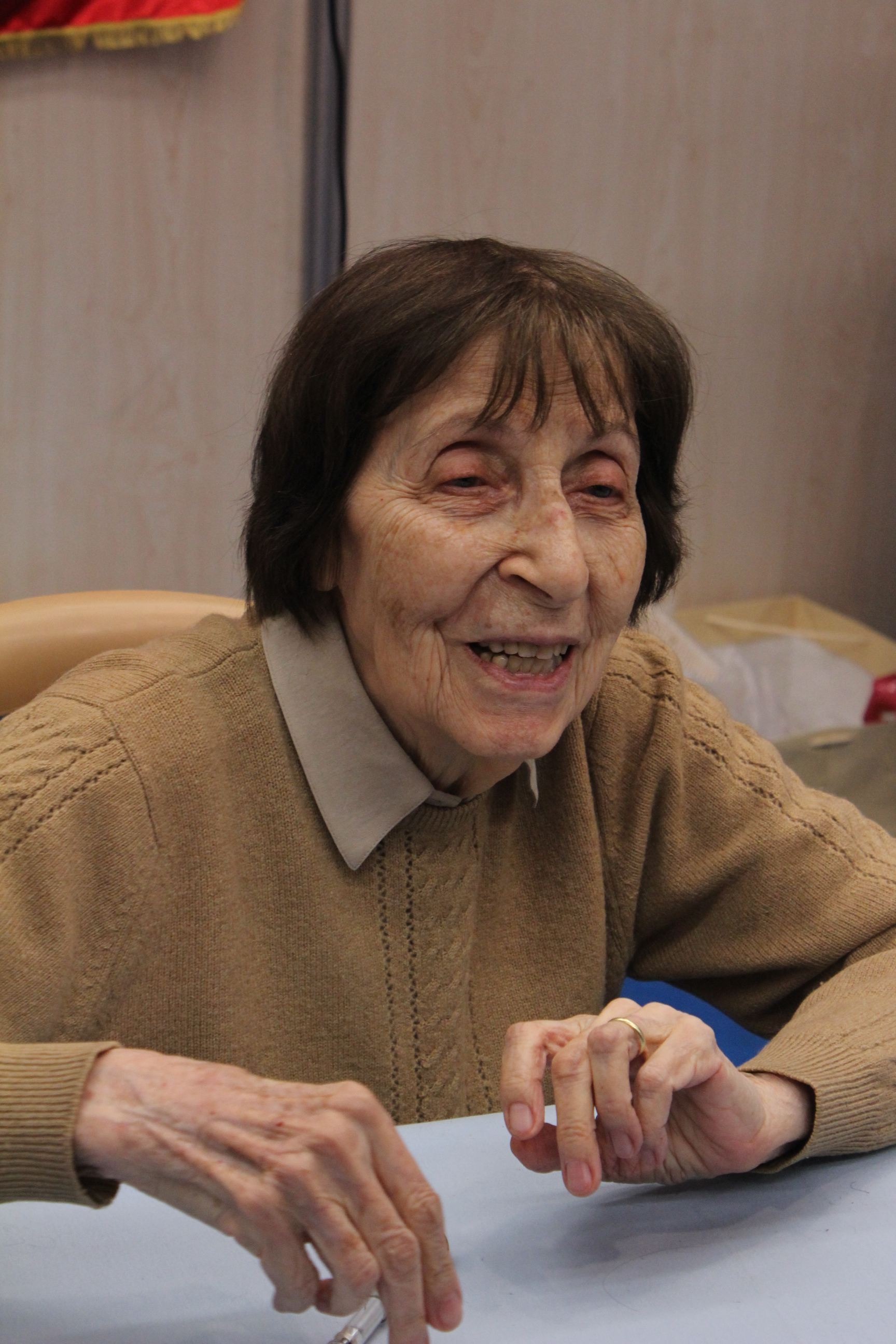 Rahşan Ecevit, during the Ankara Book Fair of 2015